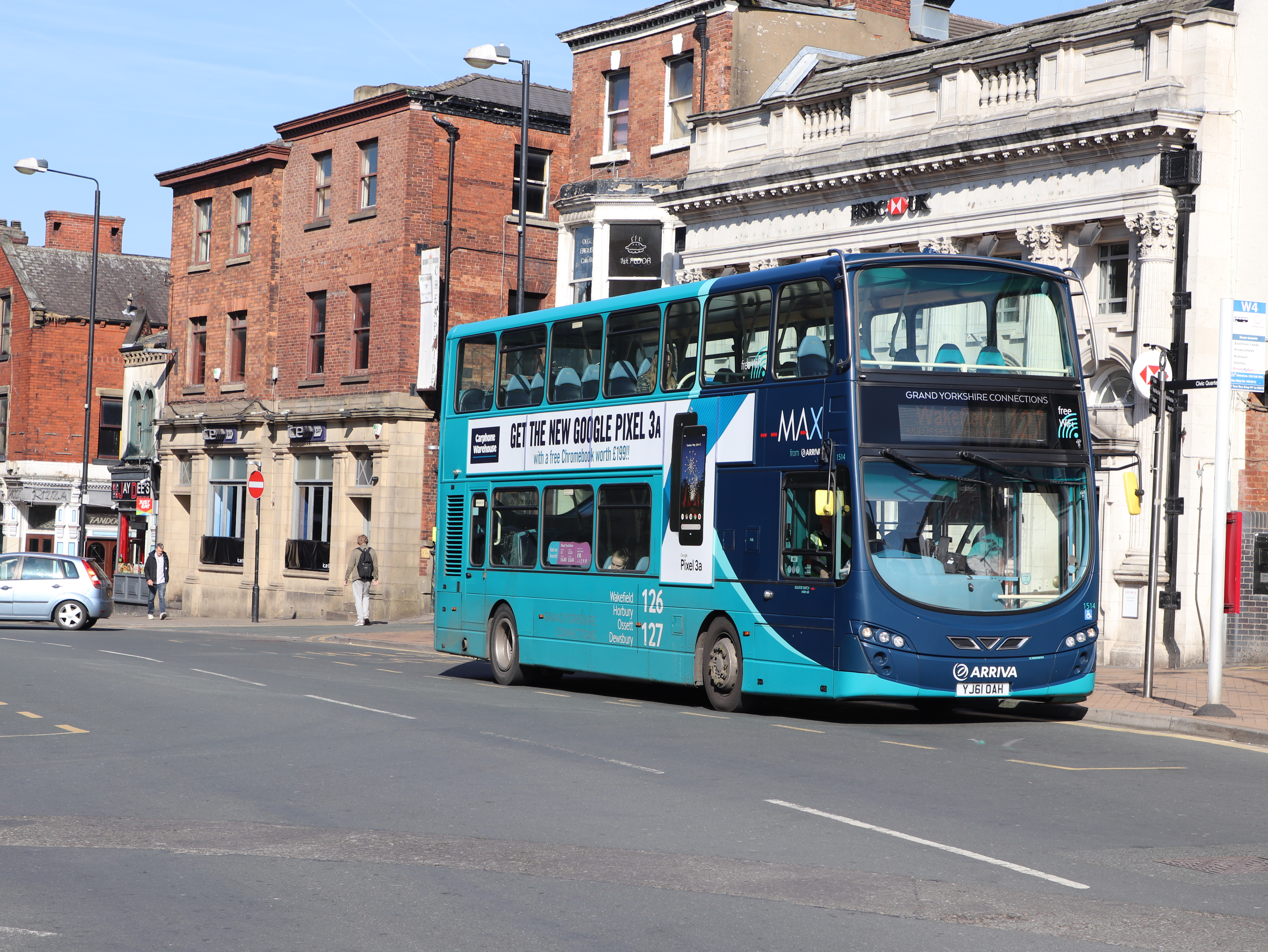 Arriva Yorkshire bus 1514, a Wright Gemini Integral, first registered in 2016. The bus is branded for MAX services 126 and 127, which operate between Dewsbury and Wakefield.